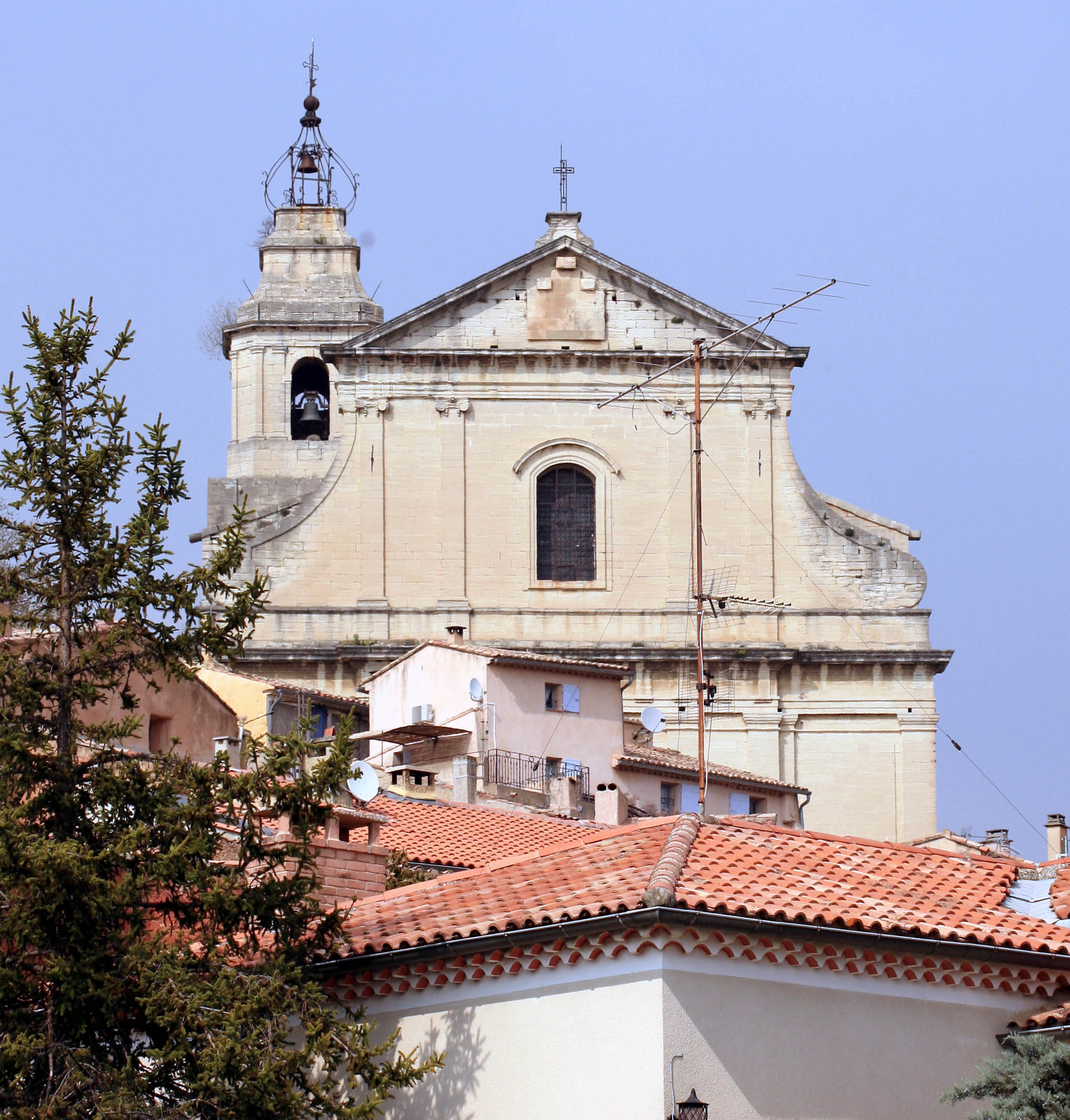 Village of Bédoin, Vaucluse, France